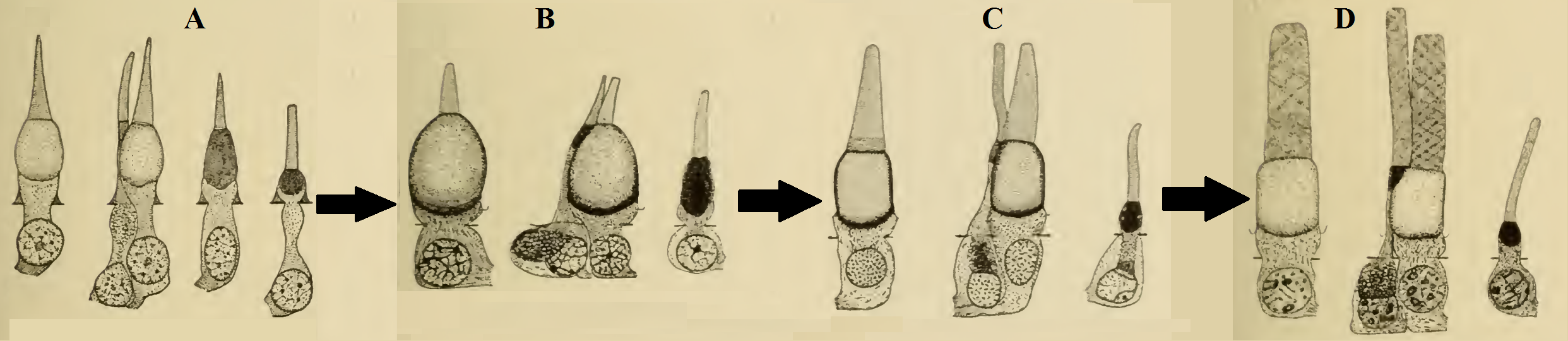 Cone photoreceptors of colubroid snakes. G.L.Walls drawing, 1942.